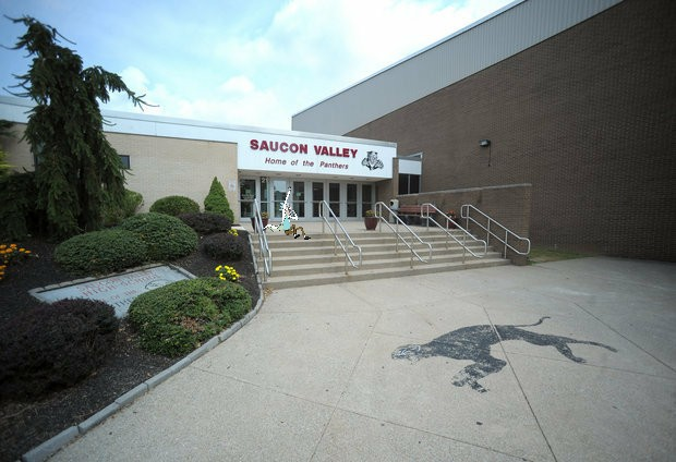 Saucon Valley High School as seen from the front entrance/student parking lot.